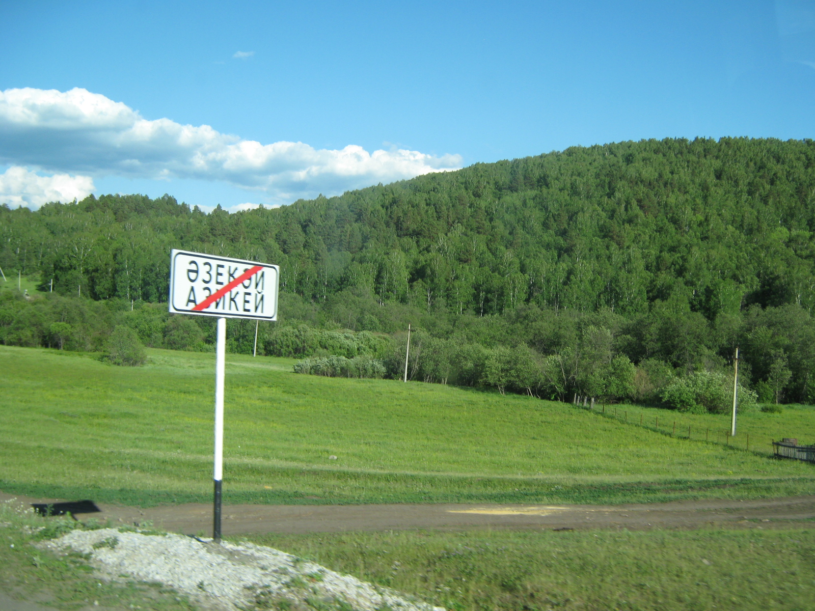 Azikey